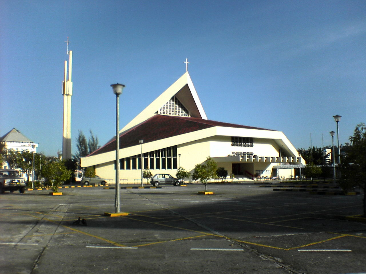 Mel M